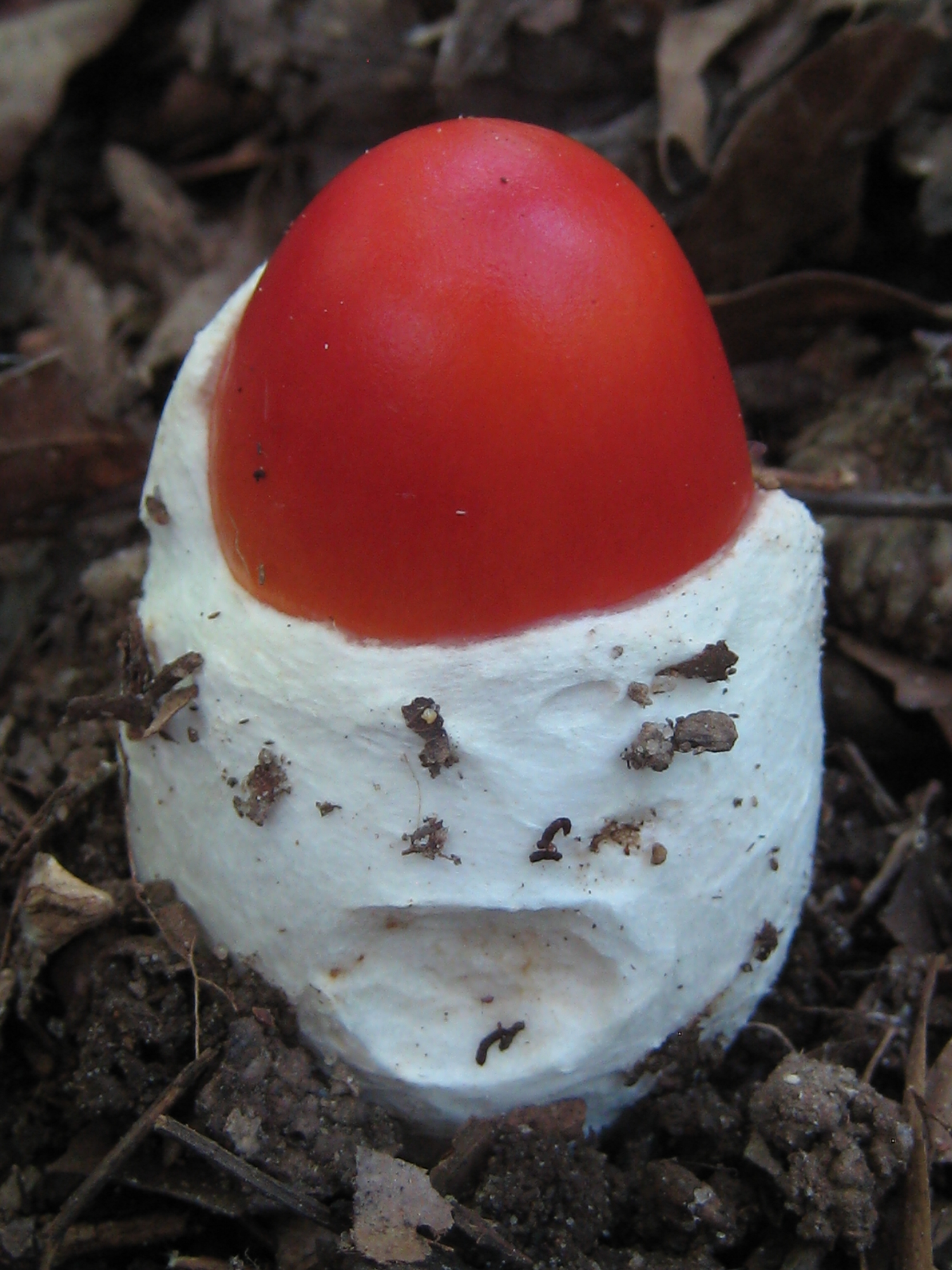 Amanita jacksonii